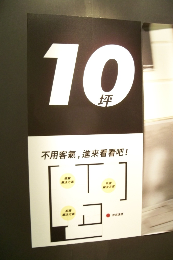 An advertisement from IKEA for a 10-ping apartment in Sanchong City, Taipei County.